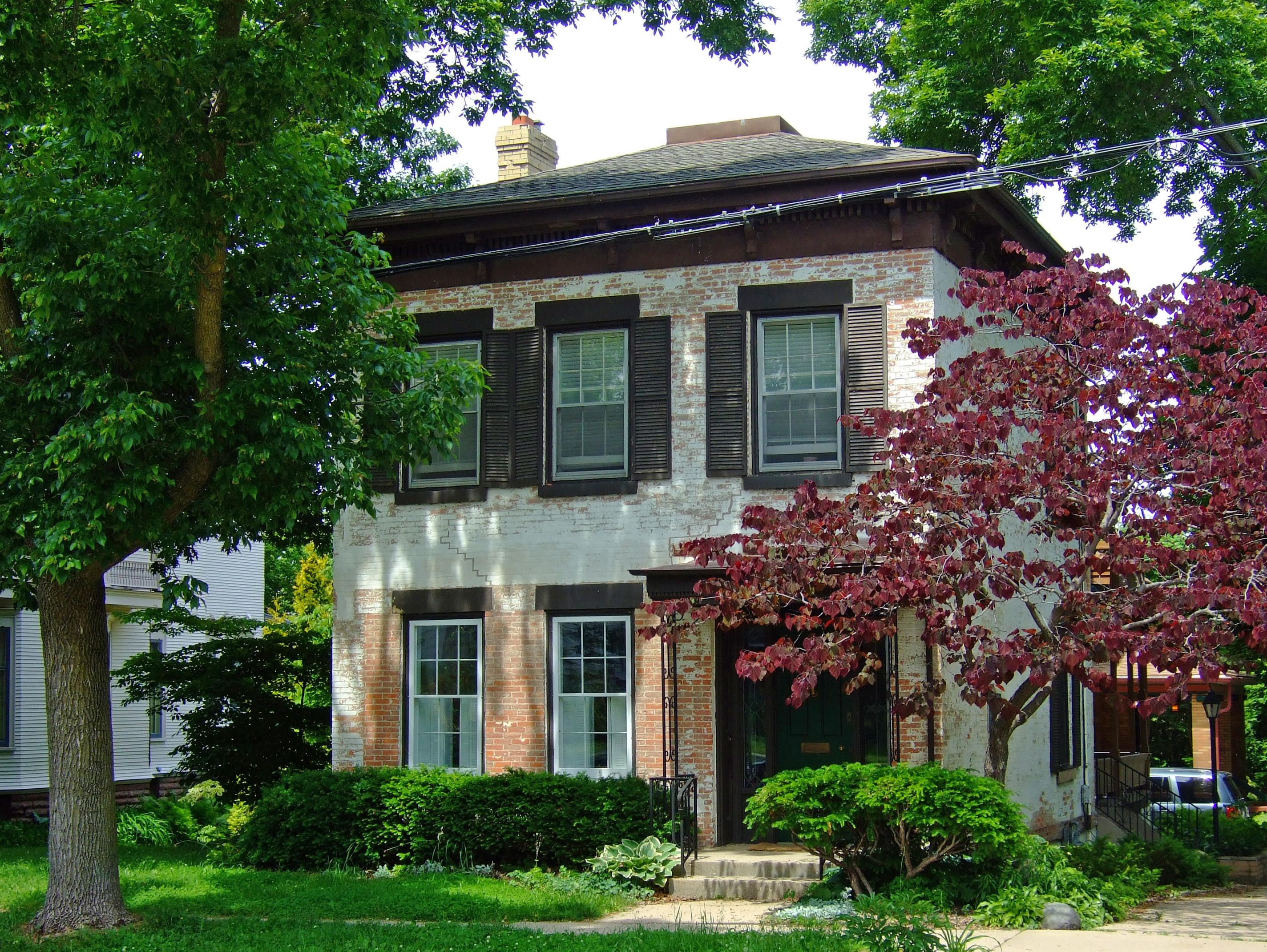 Hyer's Hotel (1854) in Madison, Wisconsin. Built in a vernacular that borrows both from Greek revival and Italianate sources, this brick structure was the front section of a larger farmers' and railway hotel. Such hotels offered lodging to boarders and travelers in the nineteenth century. David Hyer came to the nascent village of Madison in 1837. In 1855, he sold the hotel to Henry C. Jaquish, who operated it until a fire destroyed the rear portion of the building in 1874. It was added to the National Register of Historic Places in 1983.